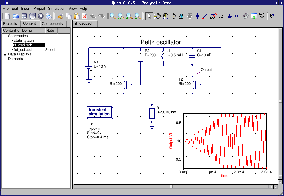 Screen shot of the software QUCS